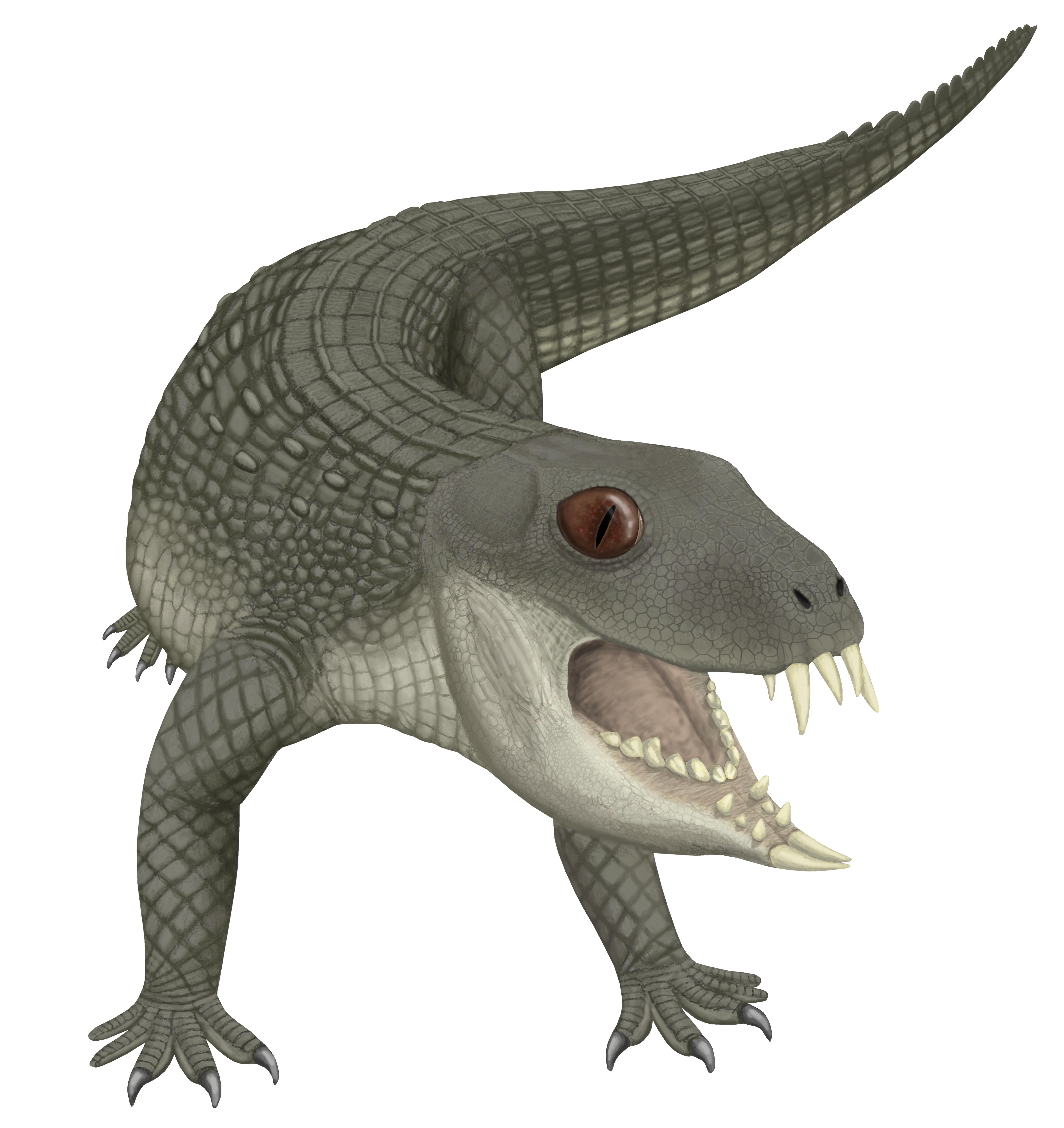 Life restoration of Yacarerani boliviensis. Head based on this figure from "Bizarre notosuchian crocodyliform with associated eggs from the Upper Cretaceous of Bolivia" by Fernando E. Novas, Diego F. Pais, Diego Pol, Ismar De Souza Carvalho, Agustin Scanferla, Alvaro Mones, and Mario Suárez Riglos Journal of Vertebrate Paleontology 29 (4) and the first photograph in this news article. Body based on general notosuchian morphology.